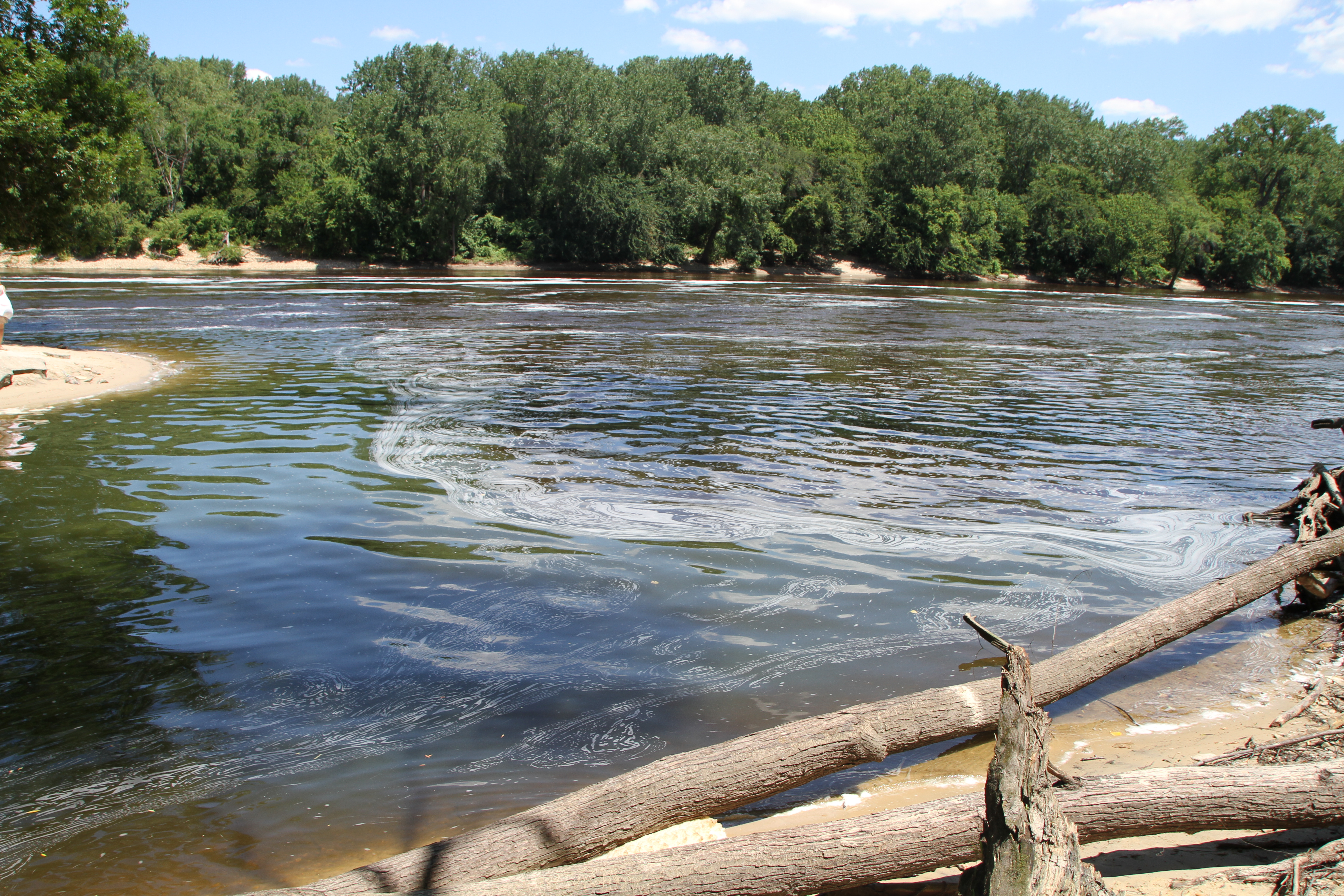 Image from the Mississippi River, at the confluence with Minnehaha River which flows in from the left, Minneapolis east